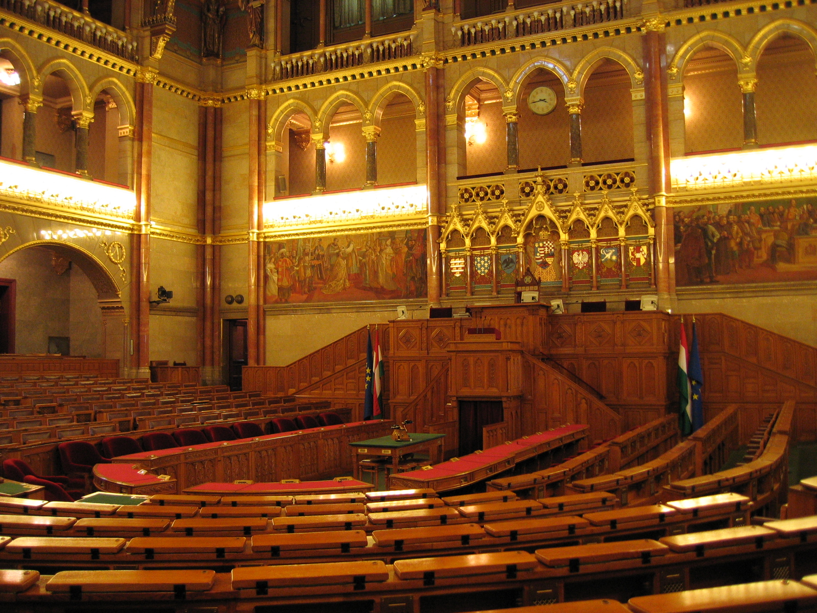 House of Representatives in the Hungarian Parliament building in Budapest.